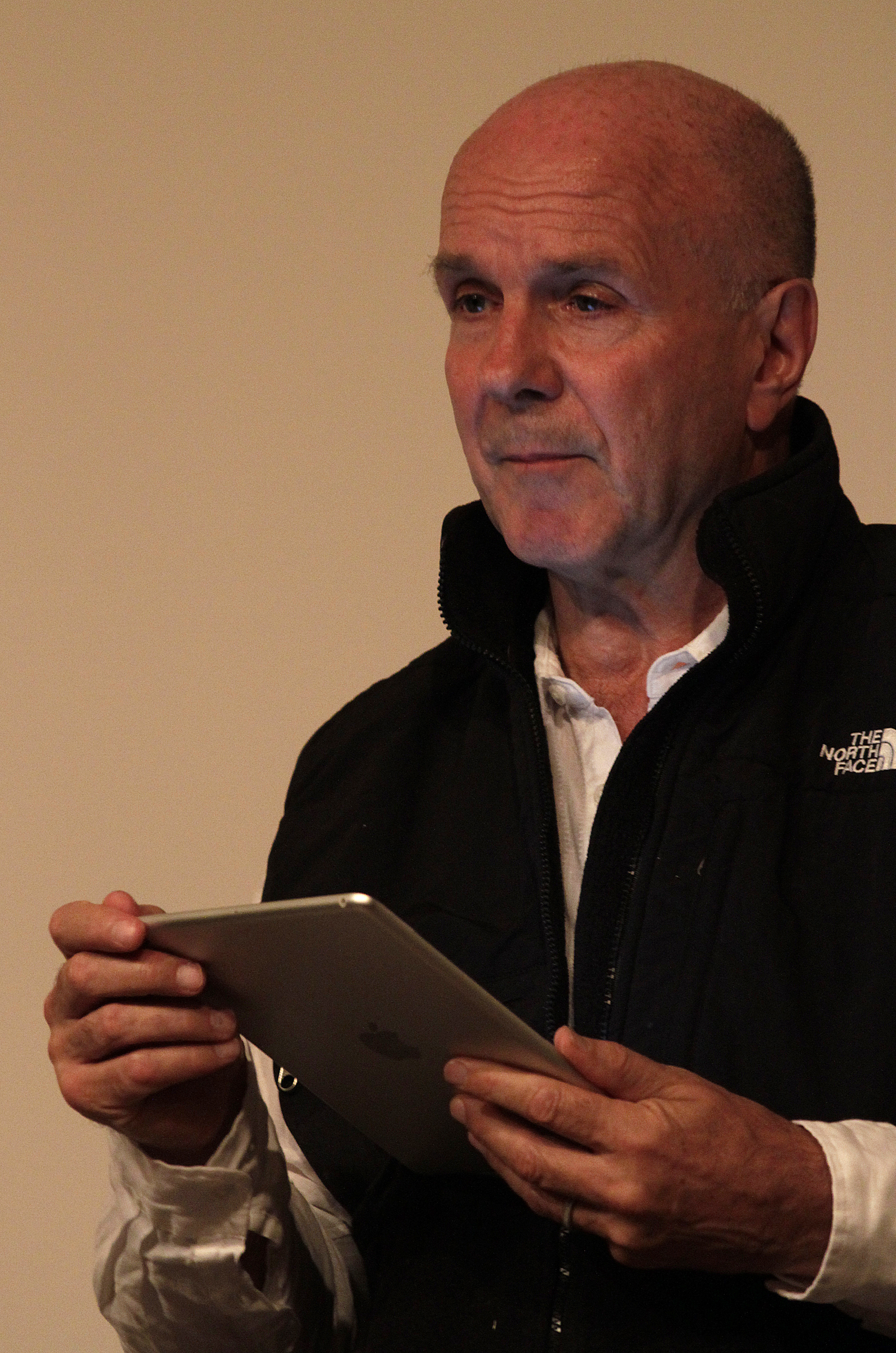 Author Simon Winchester speaks at the North Words Writers Symposium May 29, 2014 in Skagway, Alaska. (James Brooks photo)